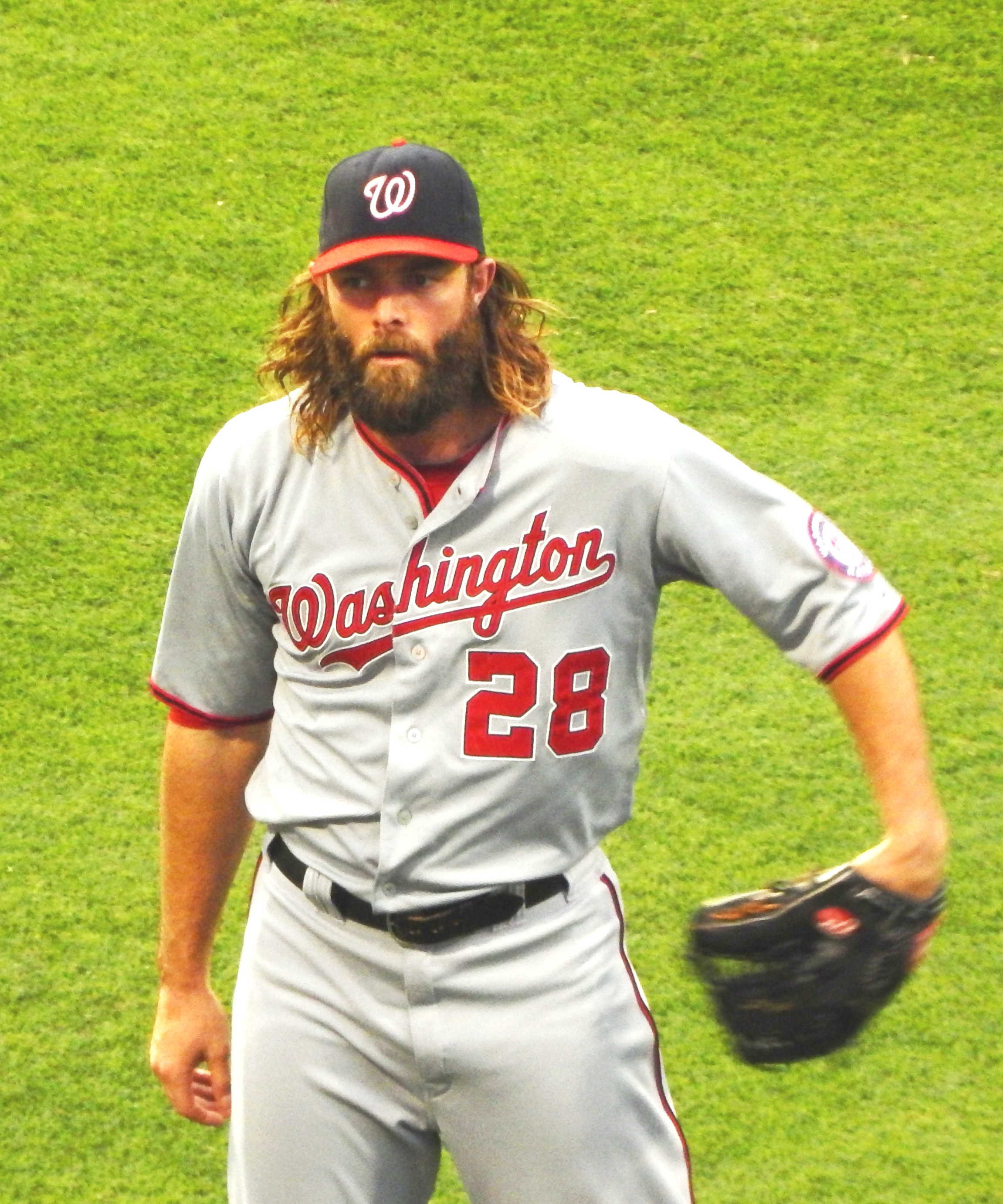 Jayson Werth playing against the Philadelphia Phillies on July 11, 2014.